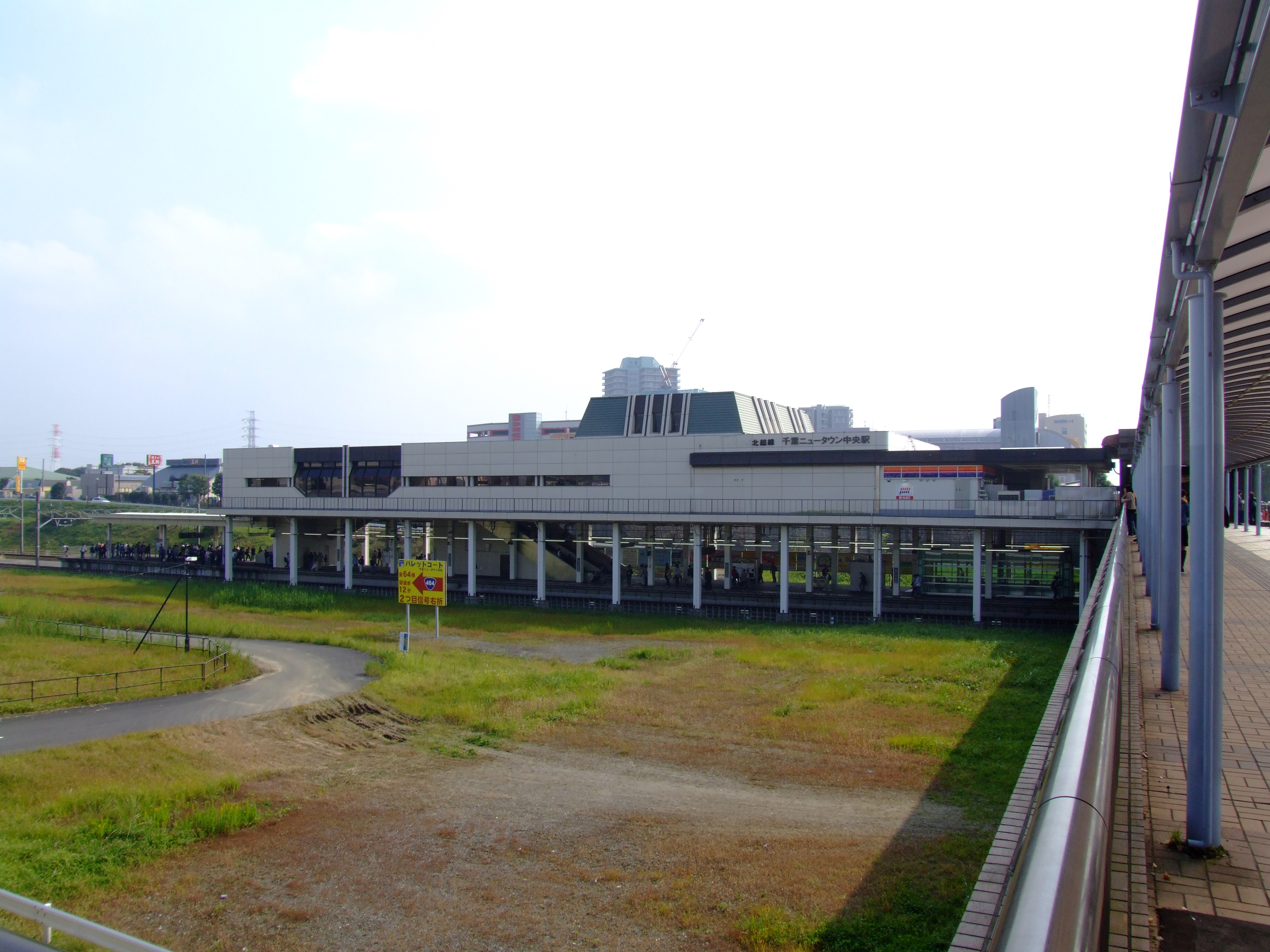 Chiba New Town Chūō Station(Hokusō Railway Hokusō Line)